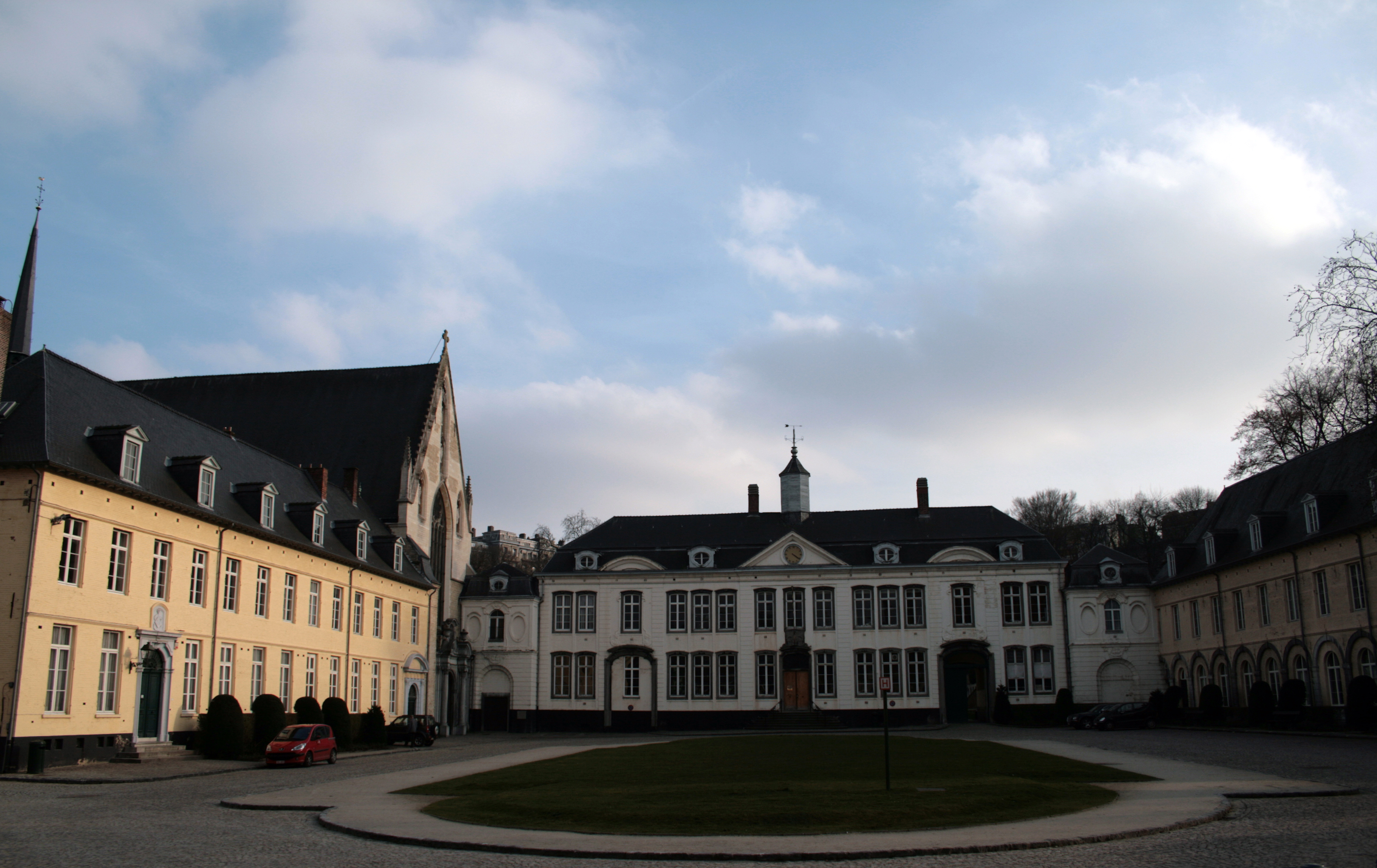 Ixelles (Belgium), the abbey palace, the main buildings, and the the "Cour d'honneur" of the previous de la Cambre Abbey.